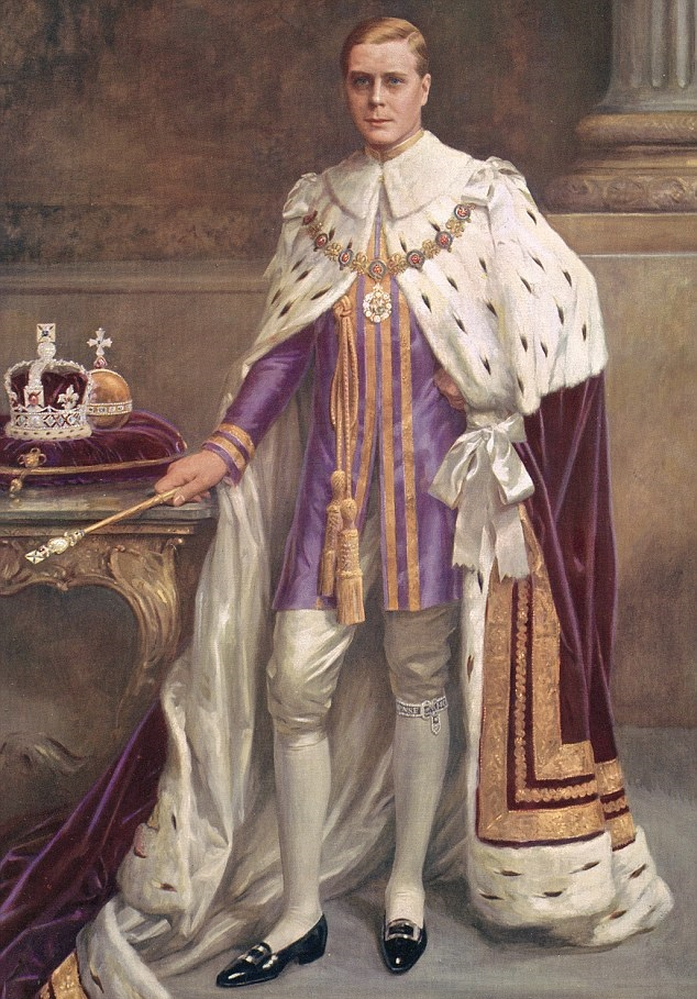 Portrait by Albert Collings, released to the public in 2011 to mark the 75th year since his abdication.